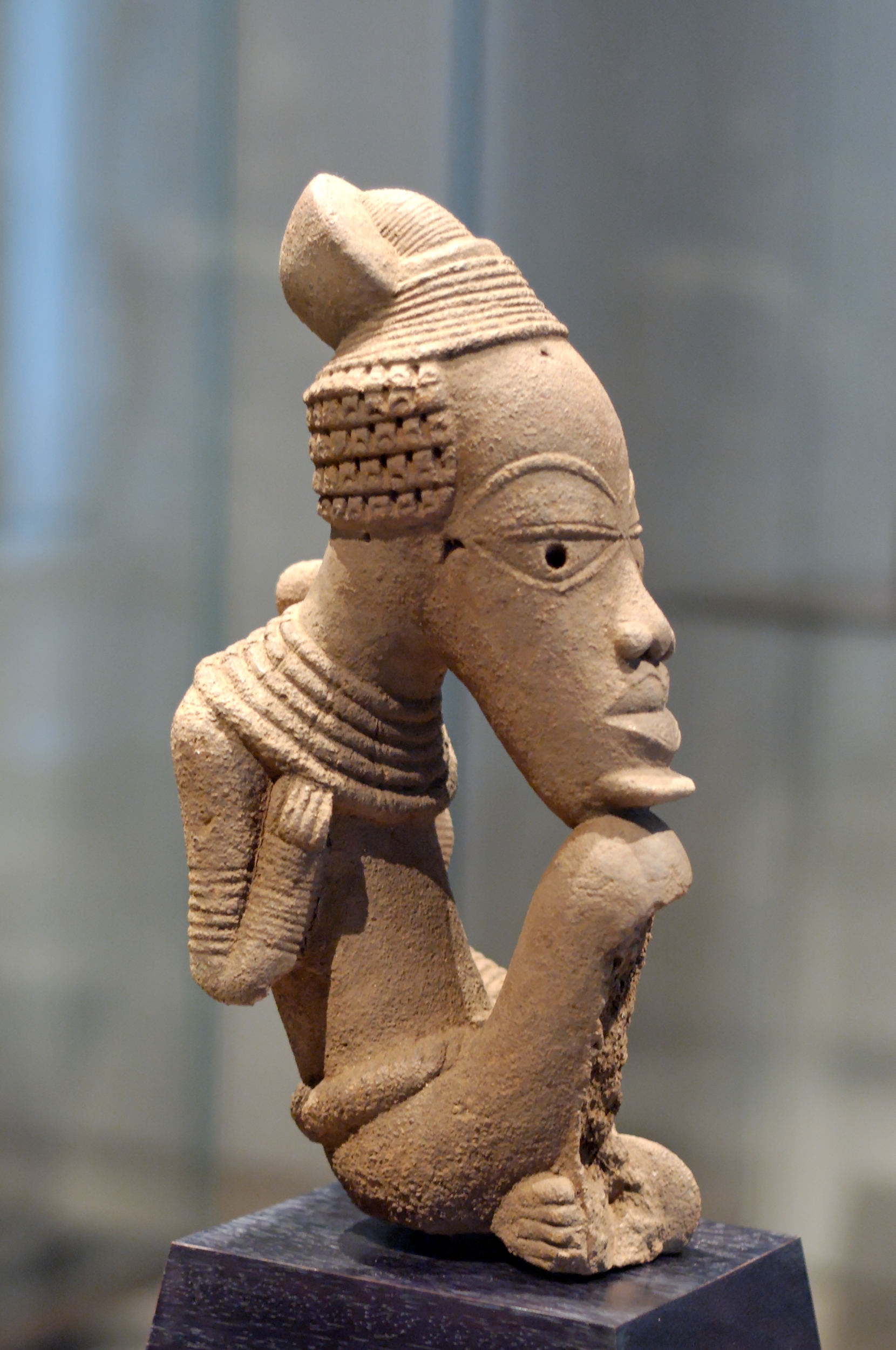 Character with chin resting on his knee. Nok sculpture, Nigeria.